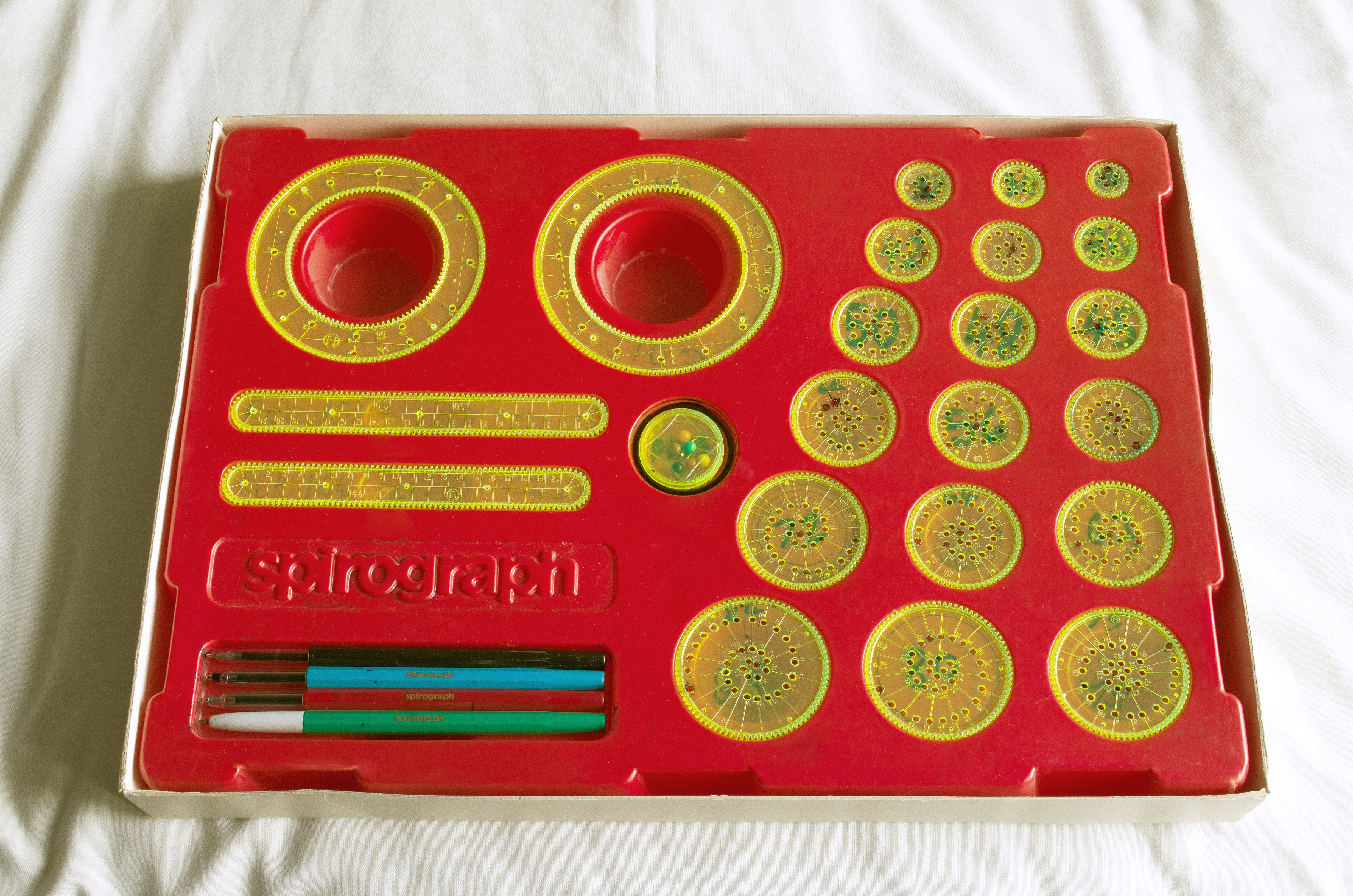 Spirograph set. This version was manufactured by Palitoy and bought in the UK in the early 1980s. (The pins are not original, nor- obviously- are the black markings on the red moulded case. But everything else shown- including the ballpoint pens- is original.)